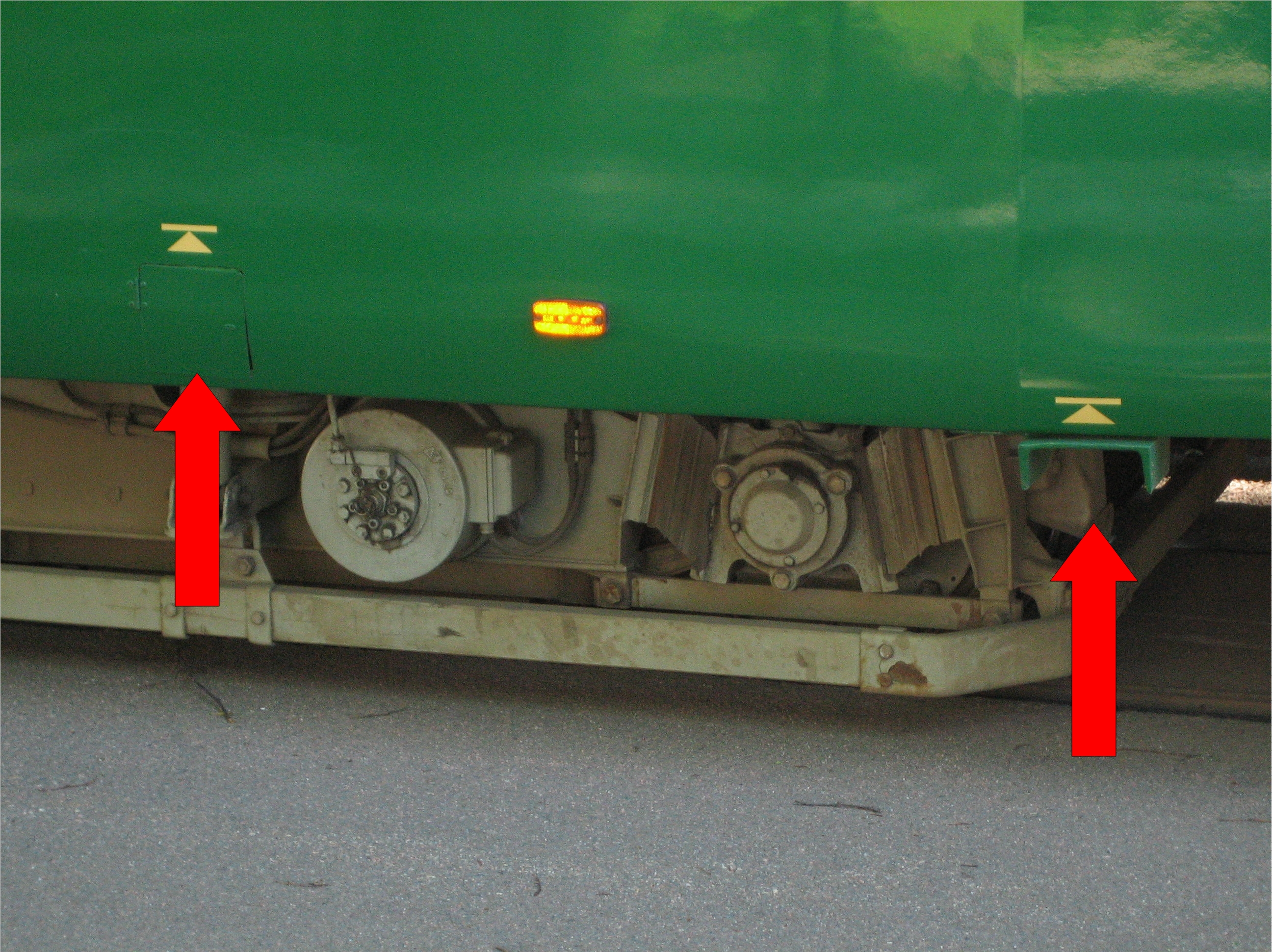 Lifting points marked near the bogie of a tram. Picture of a tram in Helsinki (probably a NrII series tram built Valmet Oy Lentokonetehdas, Oy Suomen Autoteollisuus Ab, Oy Strömberg Ab).